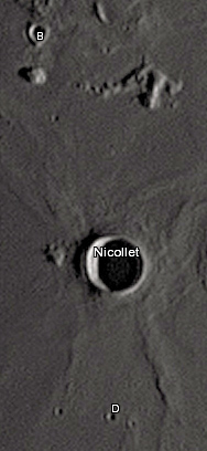 Nicollet lunar crater as seen from Earth with satellite craters labeled